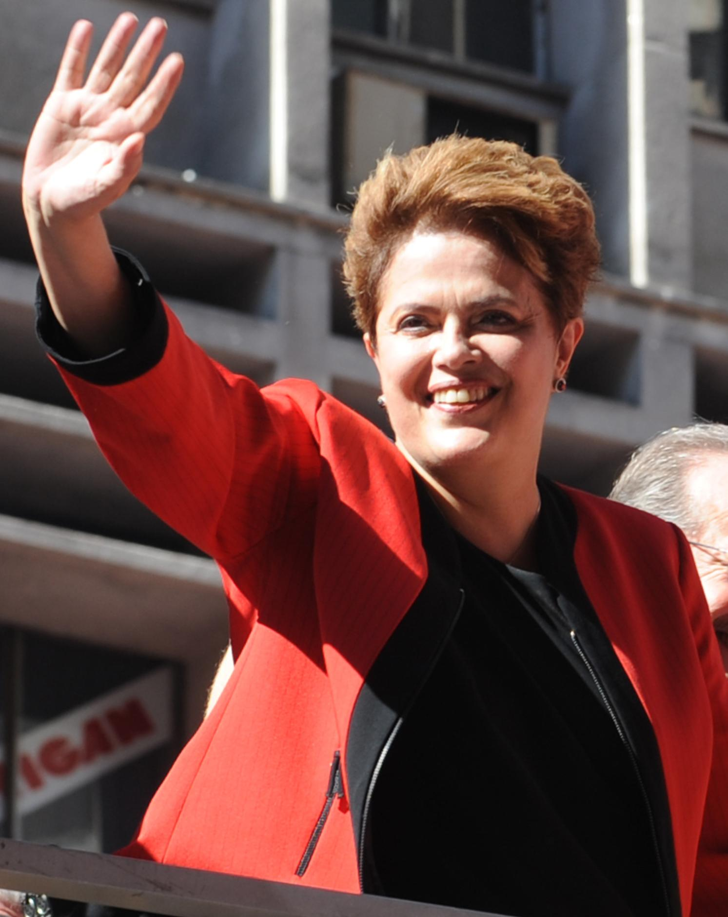 Dilma Rousseff on July, 2010 in Porto Alegre.